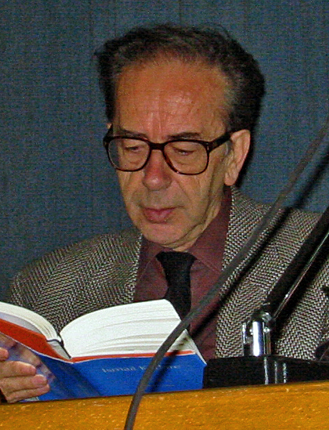 Ismail Kadare doing a public reading from one of his books. Zurich, Switzerland, Autumn 2002.